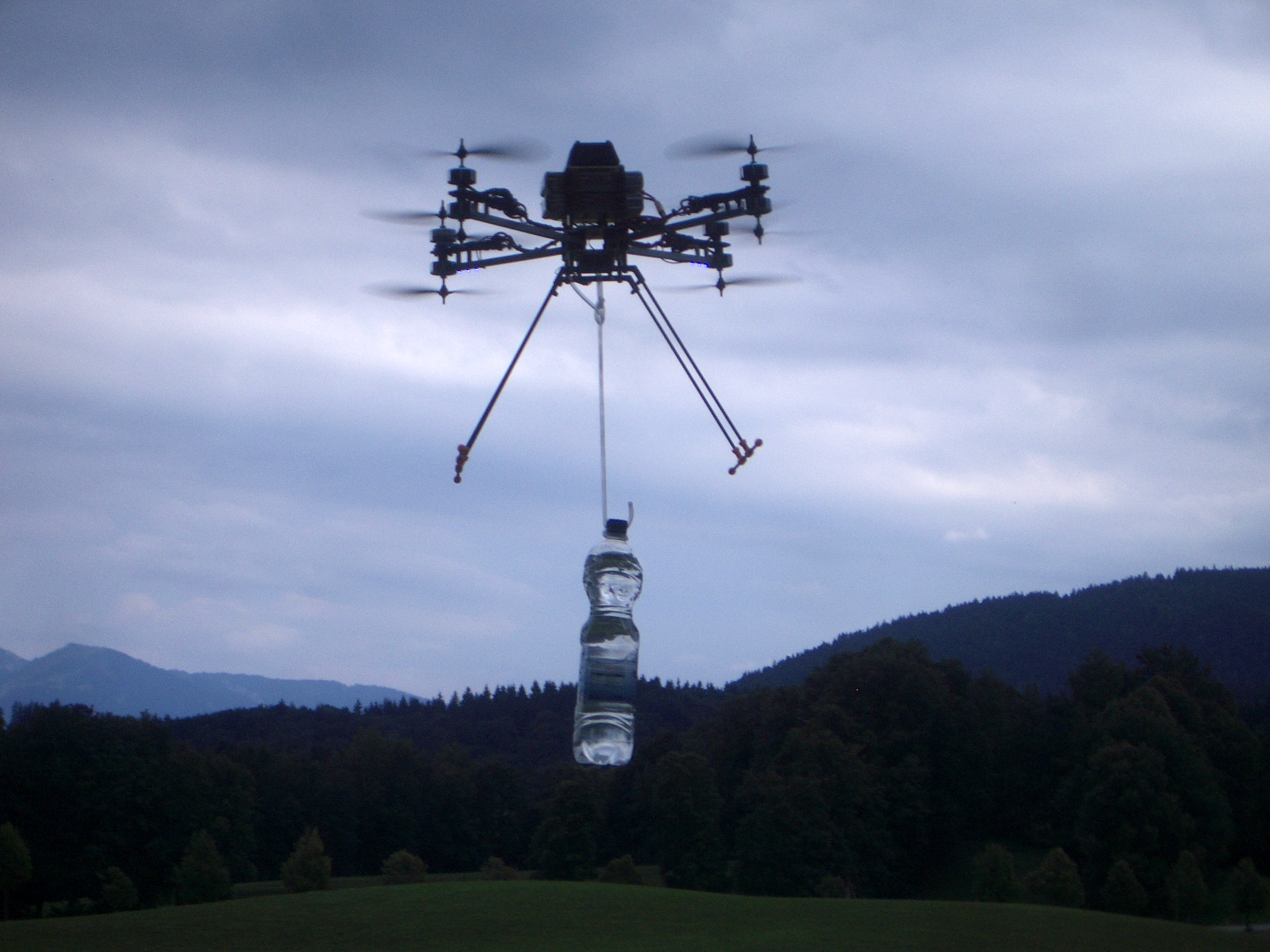 A TT-Copter OctoCopter / MultiRotor from TT-RC.de is lifting 1,5kg